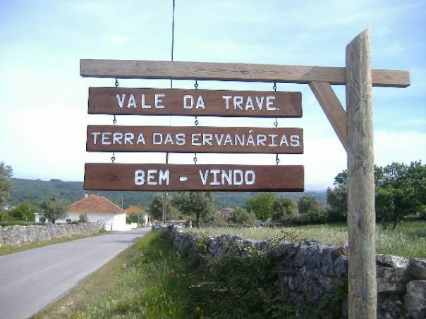 Identification Welcome Plate for the town of Vale da Trave